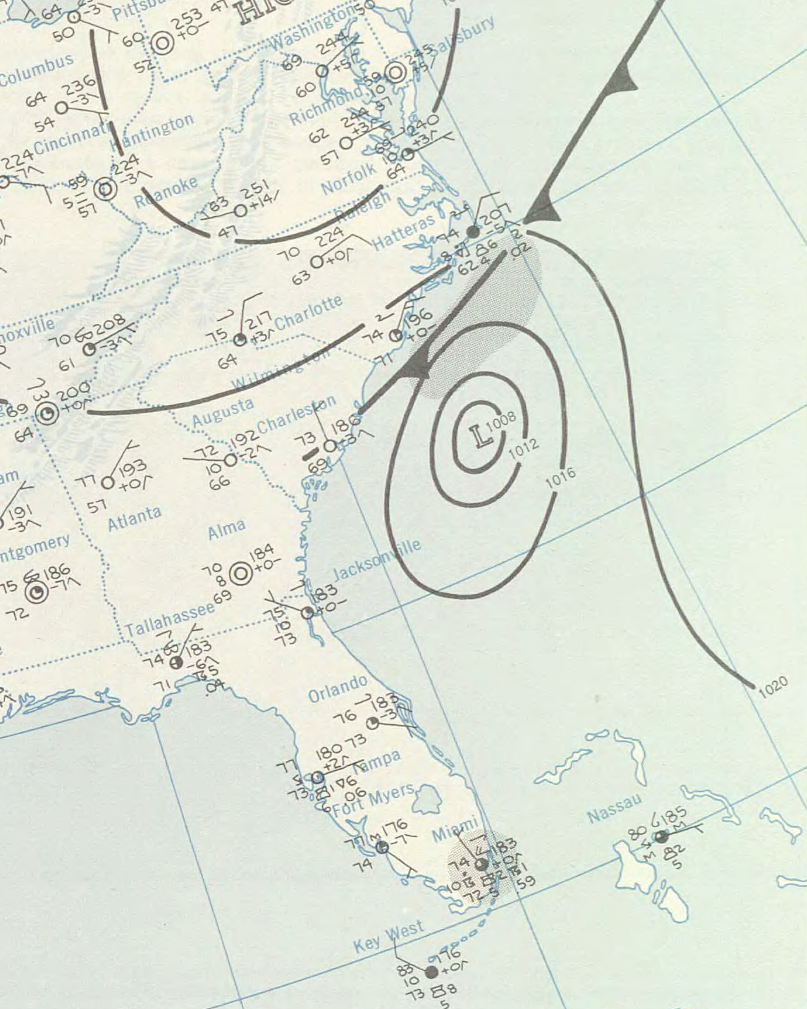 Surface analysis for July 8, 1959, specifically the area around Hurricane Cindy.